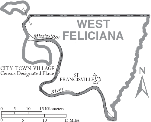 Map of West Feliciana Parish, Louisiana, United States with municipal boundaries